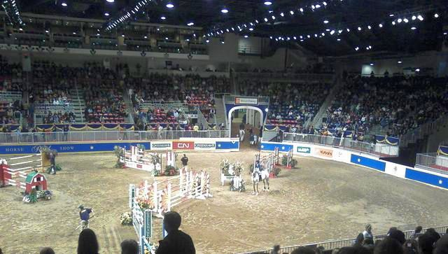 Horse jumping competition at the Royal Horse Show, Royal Agricultural Winter Fair, Toronto.